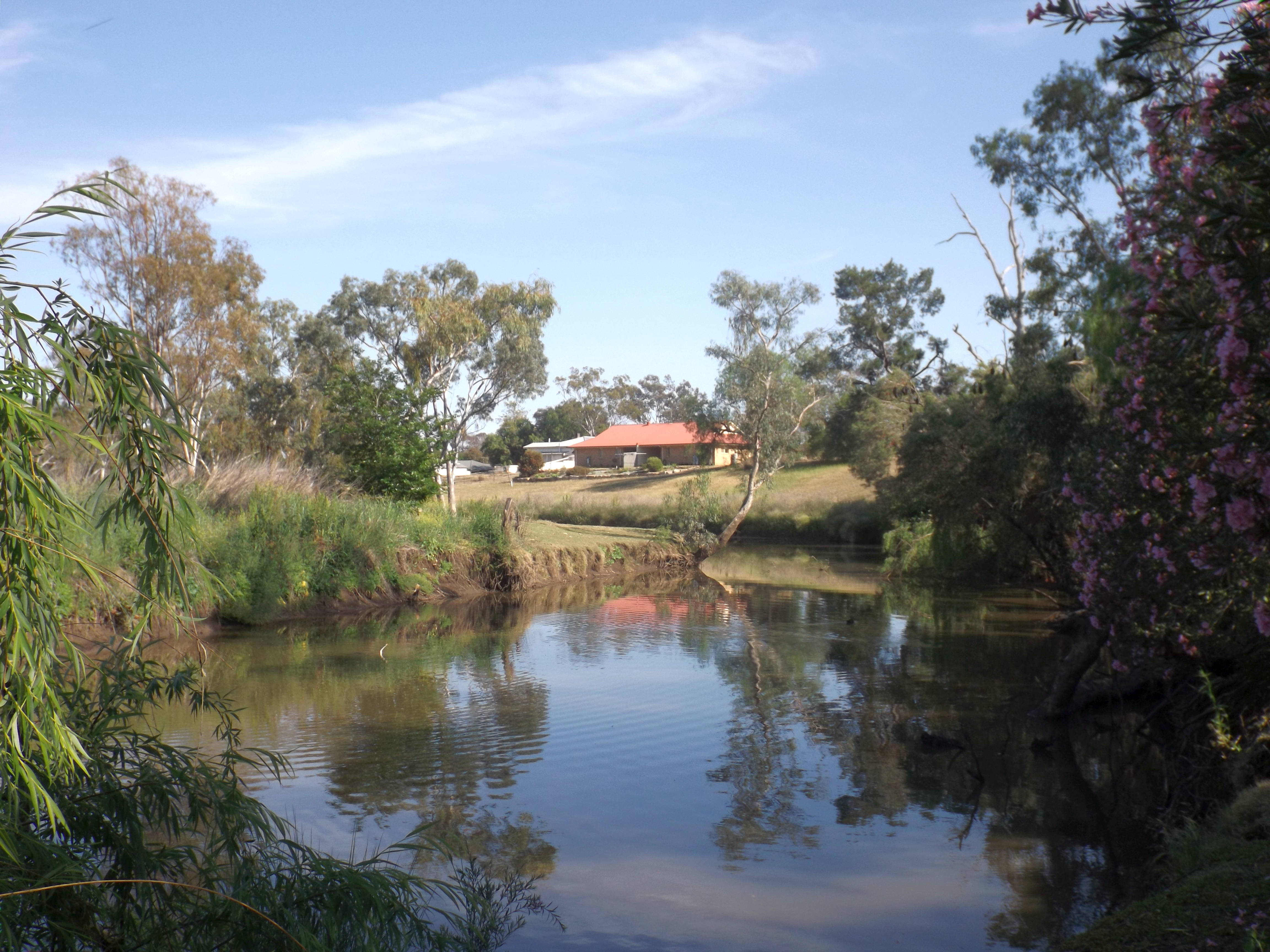 Photo of Oakey Creek at Oakey, Queensland, Australia.